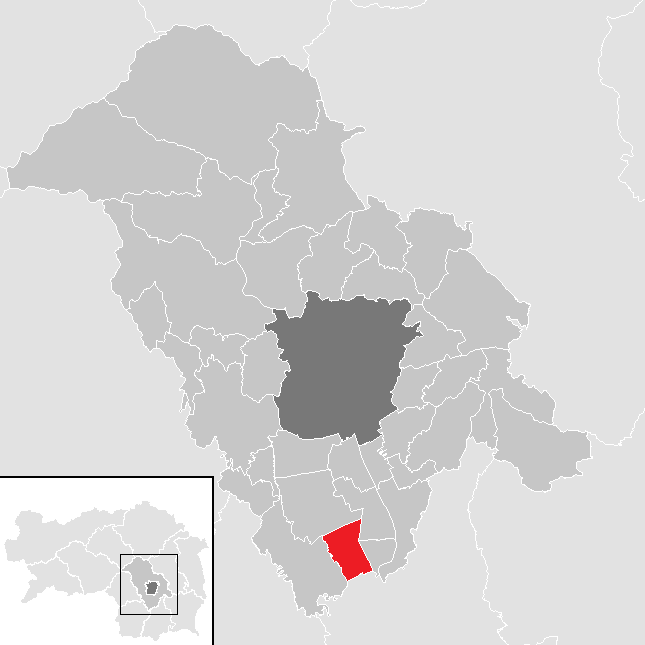 District Graz-Umgebung, Styria